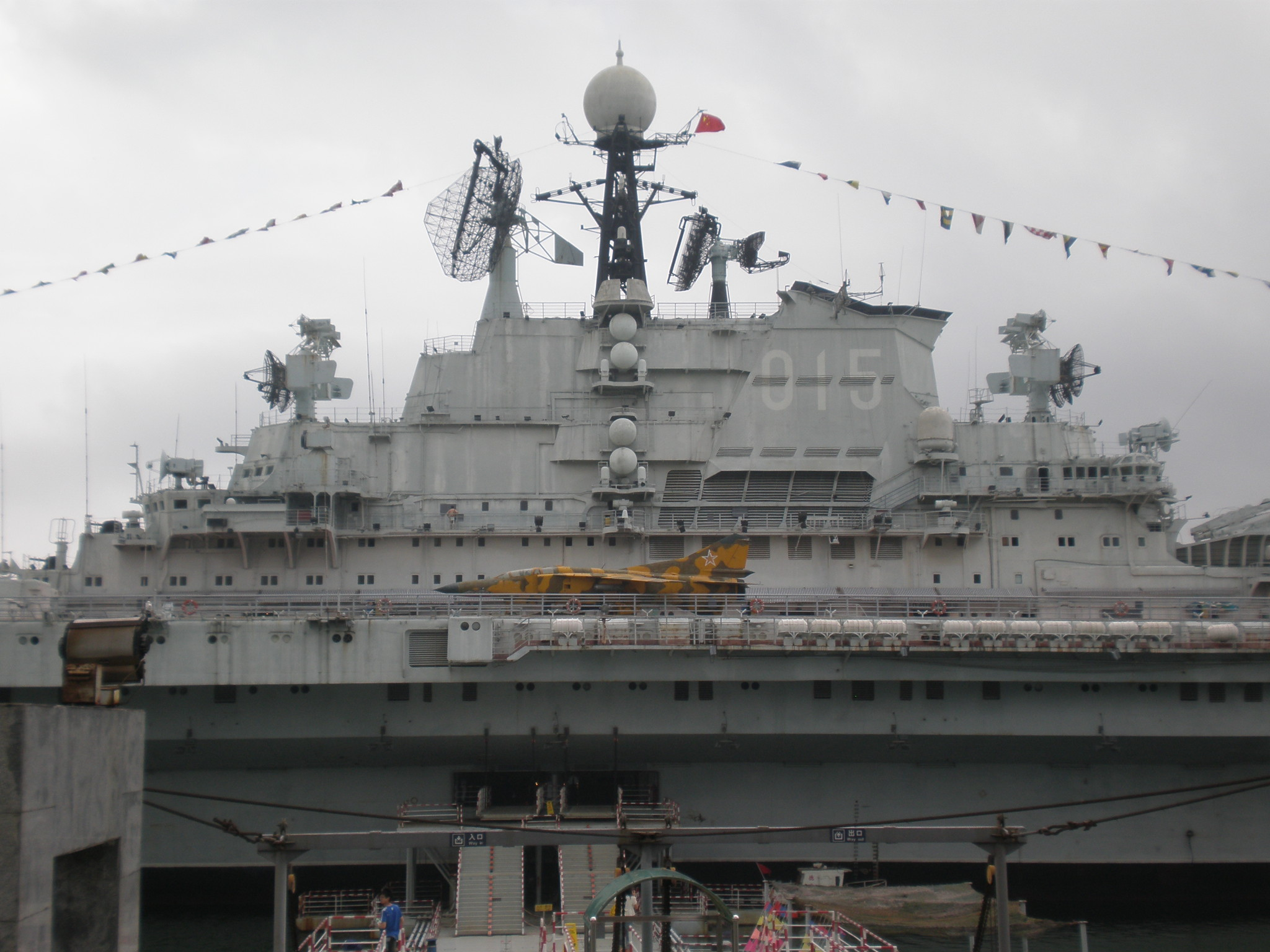 The island of the carrier Minsk as seen from the shore at the Minsk World theme park in Shenzhen, PRC.